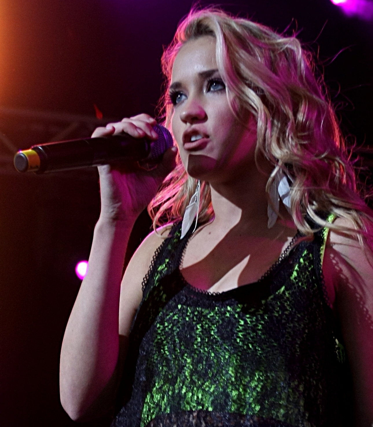 Emily Osment performing live at KISS concert in May 2010.